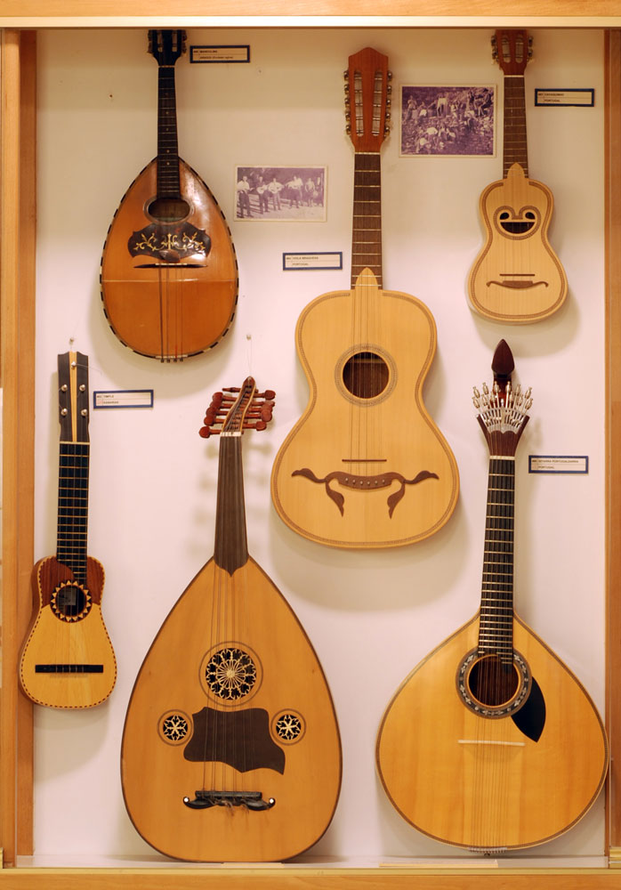 Portuguese string ensemble) Soinuenea - Herri Musikaren Txokoa (Traditional Music Centre; former Documentation Center of Popular Music) Oiartzun, Gipuzkoa, Spain